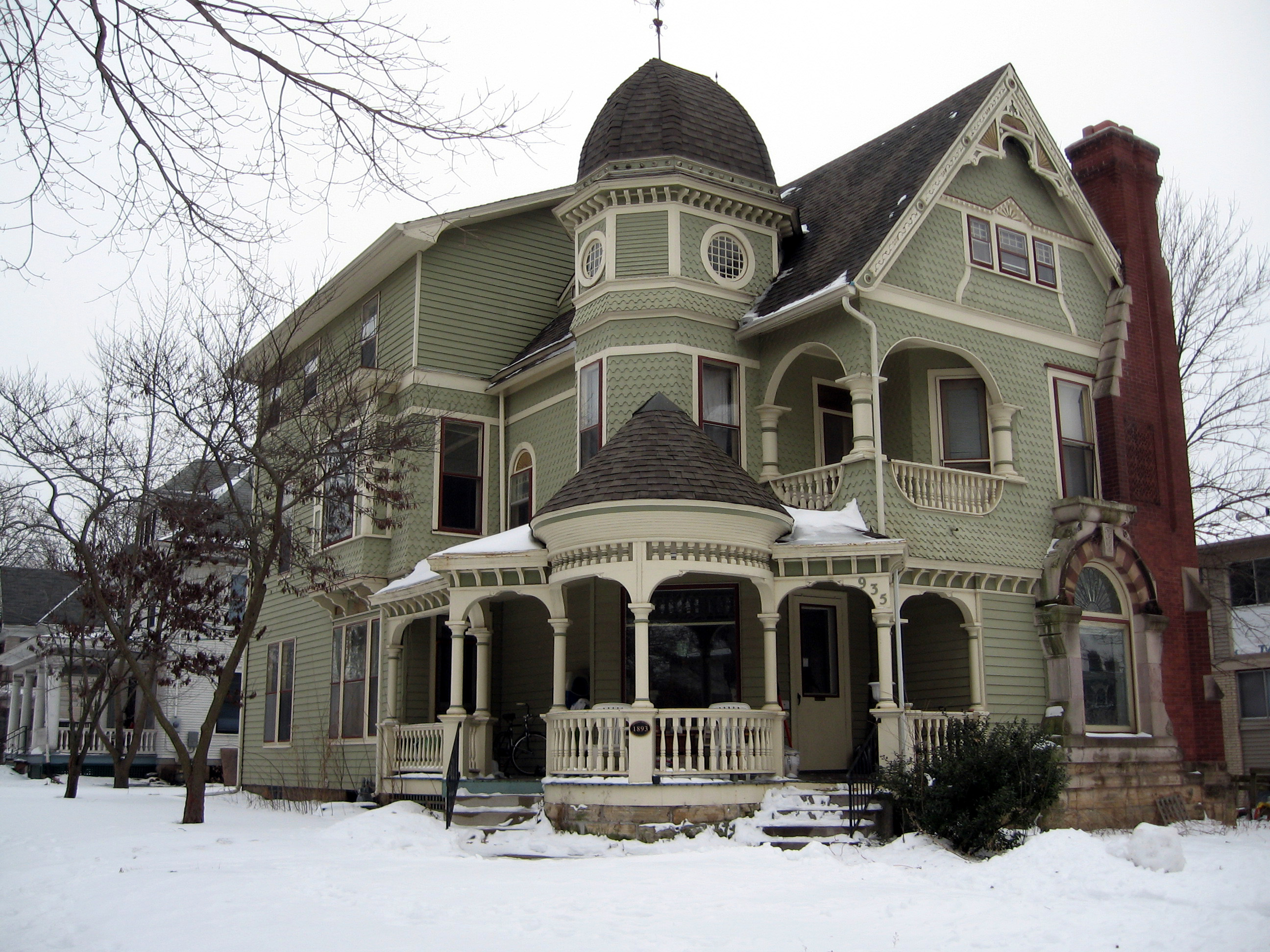 Linsay house, on the National Register of Historic Places, Iowa City. It is perhaps most famous as the model for the Bloom County boarding house.